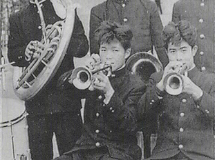 Picture of Kyu Sakamoto at his school with his school band, 1956 Licensing This photographic image was published before December 31st 1956, or photographed before 1946, under the jurisdiction of the Government of Japan. Thus this photographic image is considered to be public domain according to article 23 of old copyright law of Japan (English translation) and article 2 of supplemental provision of copyright law of Japan. To uploader: Please provide an image source.